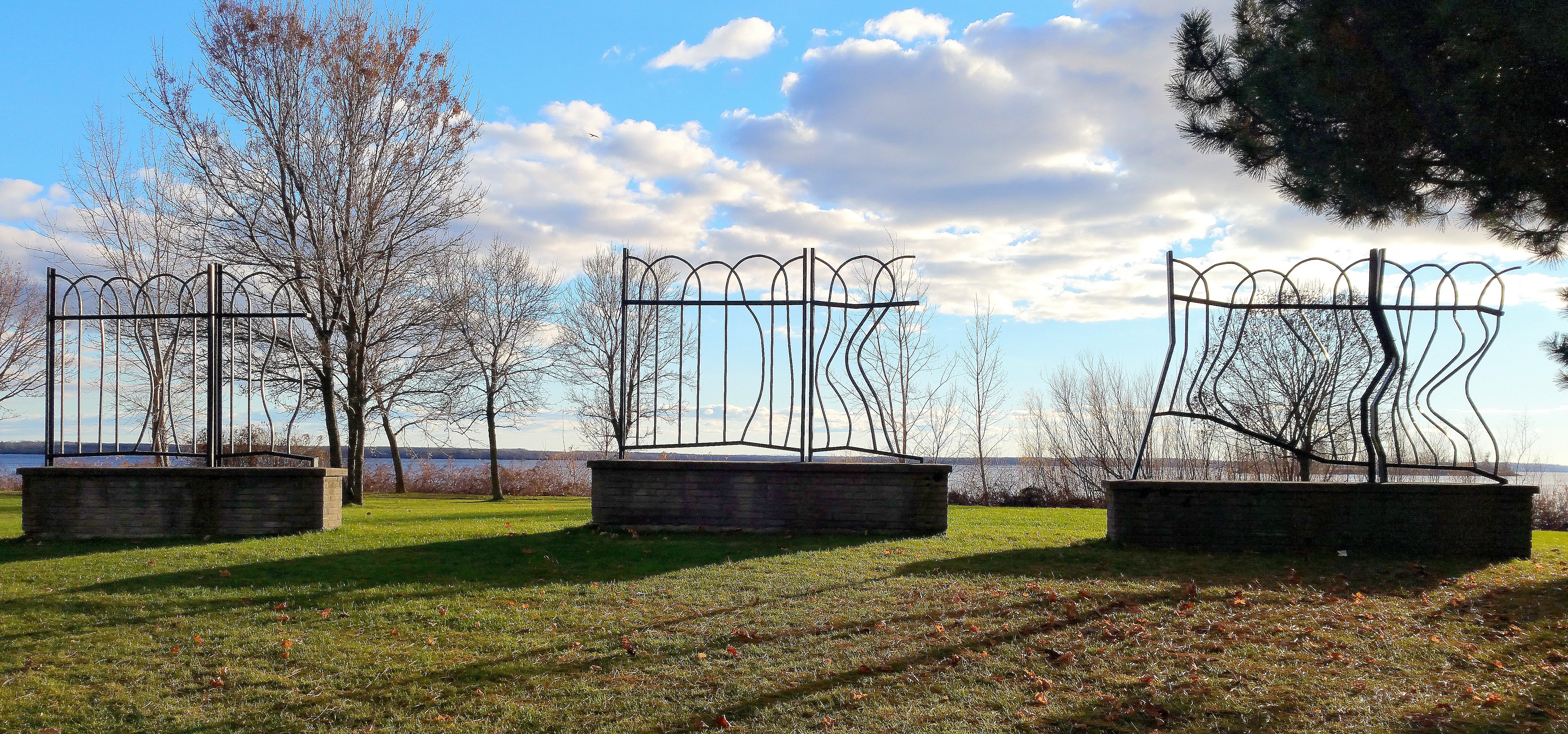 Fort-Rolland Park, Lachine, Montreal, Quebec